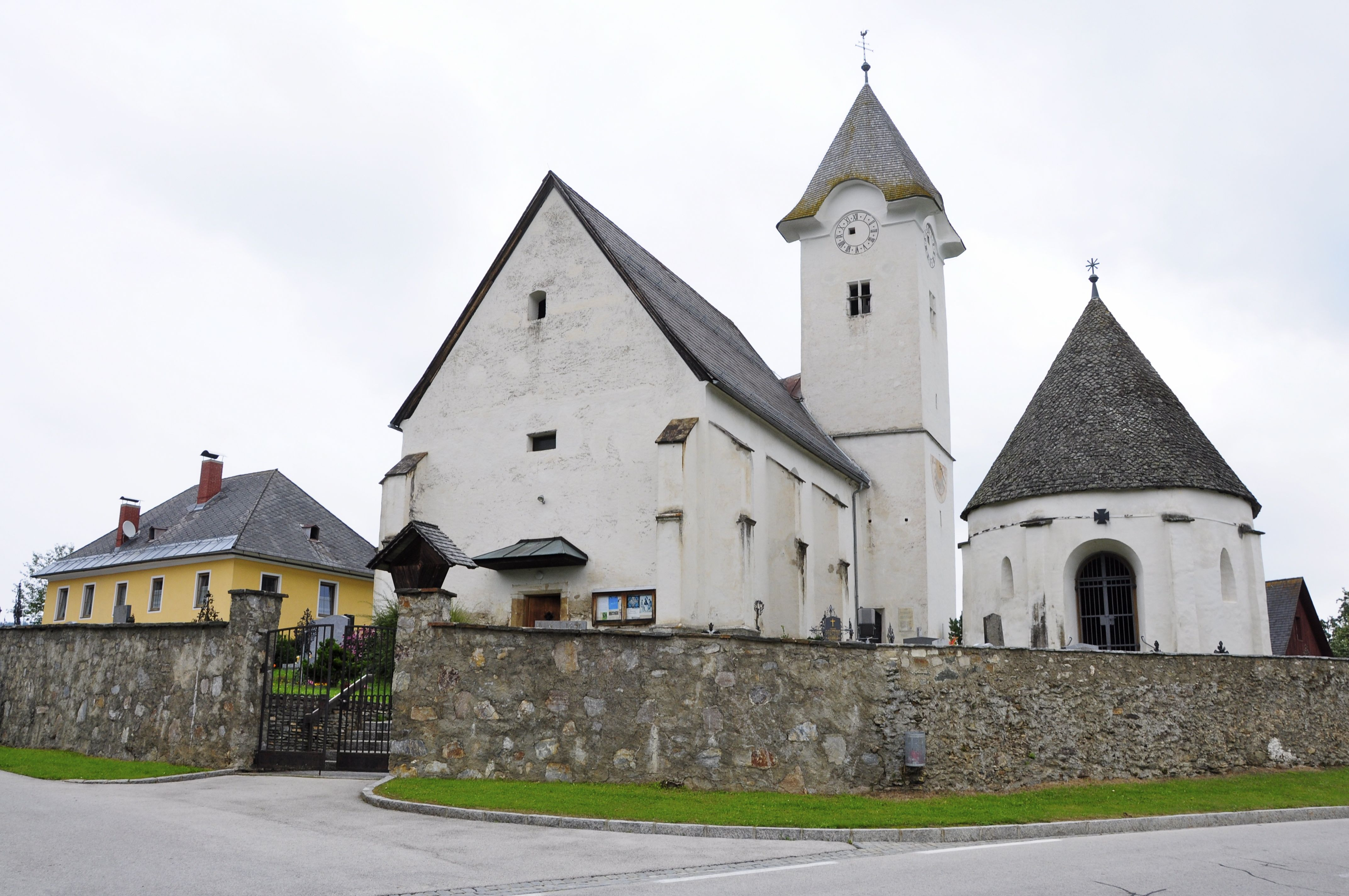 Parish church Saint Lambert and charnel house in Pisweg, market town Gurk, district Sankt Veit, Carinthia, Austria, EU